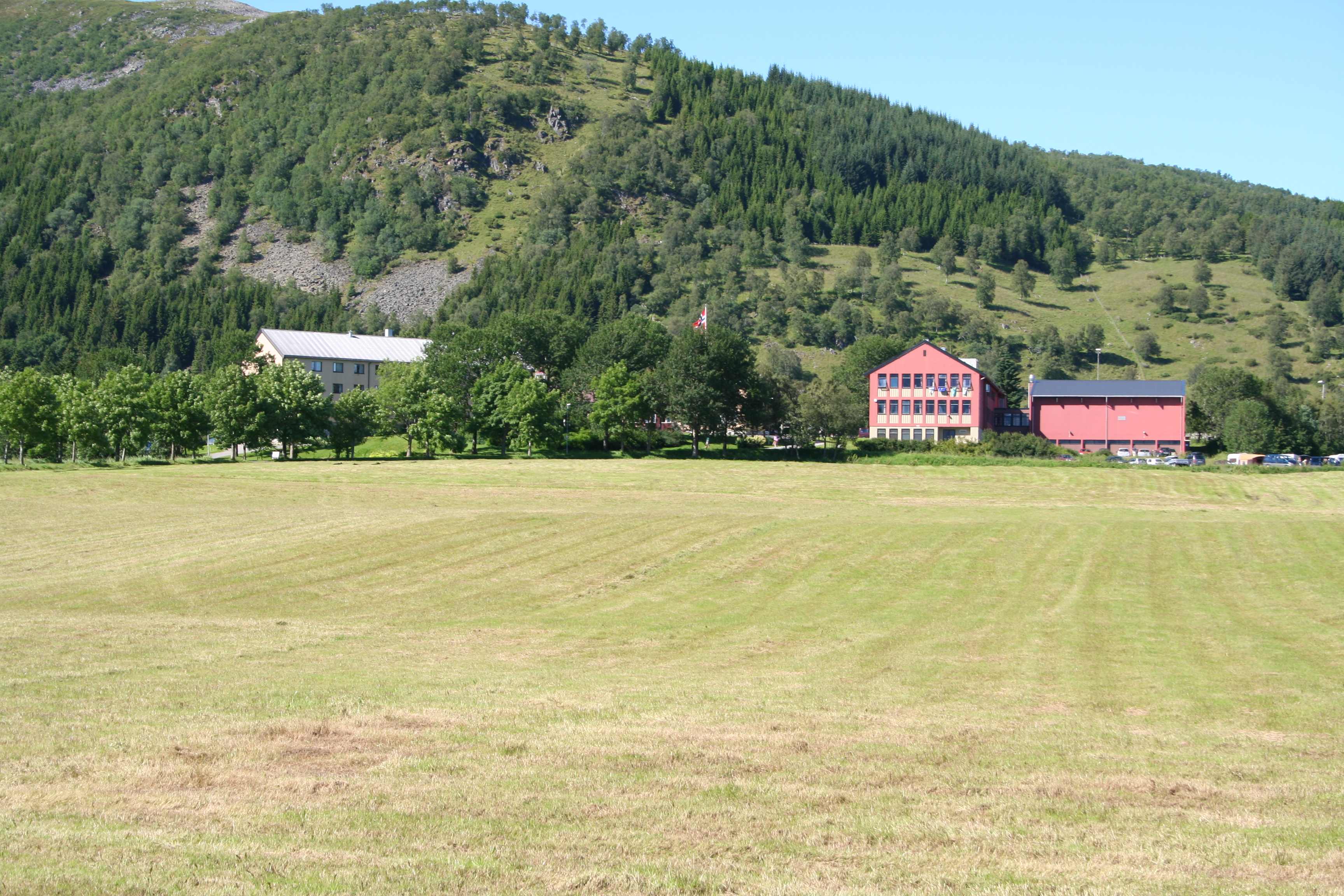 This picture was taken by me on 27 July 2006.